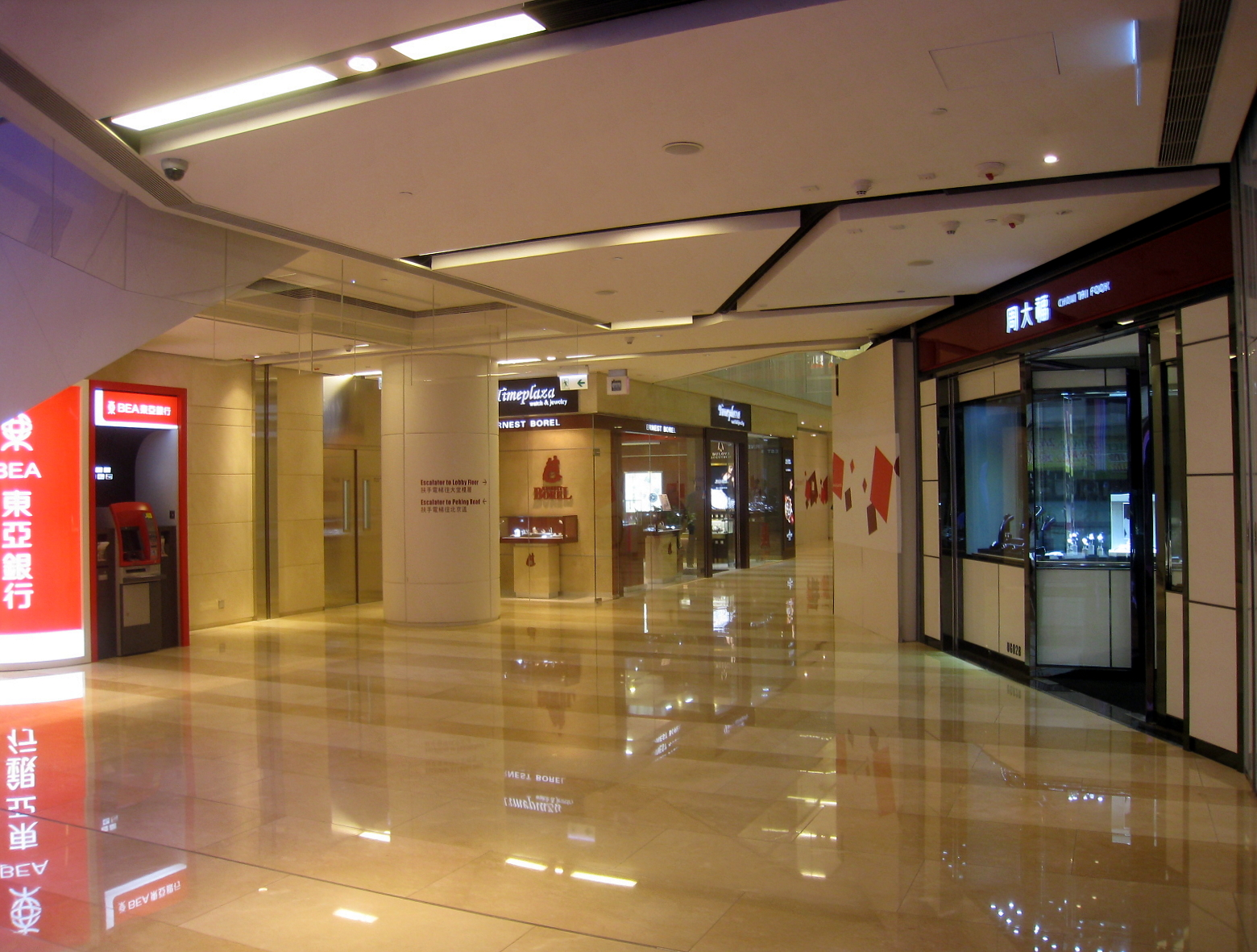 iSQUARE 國際廣場